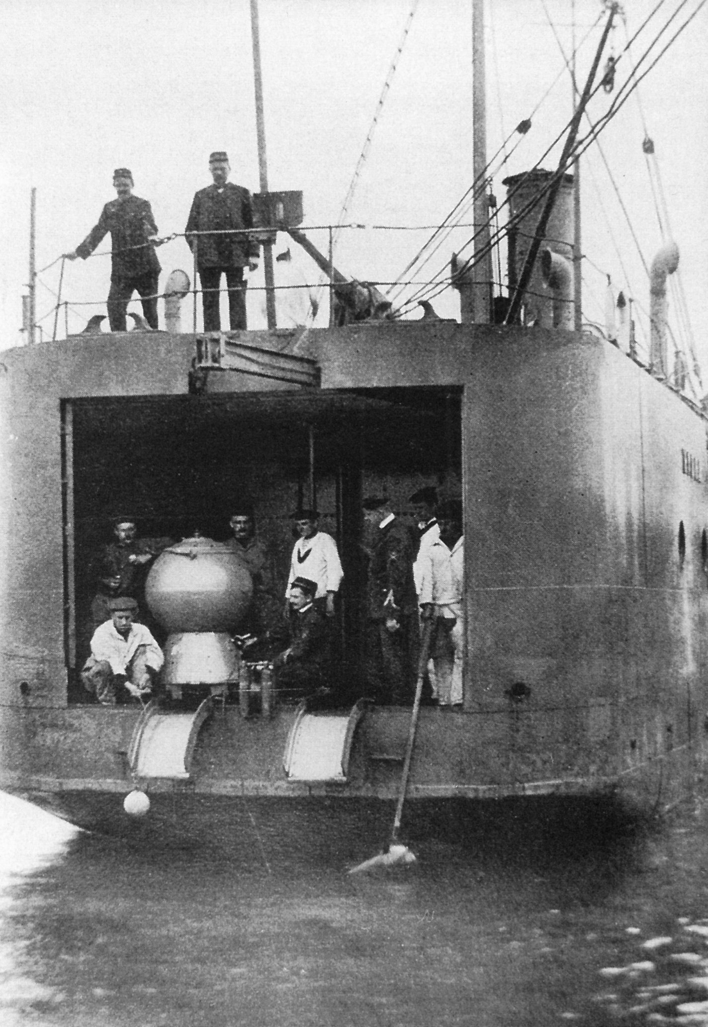 The Dutch minelayer Hydra during a minlaying exercise